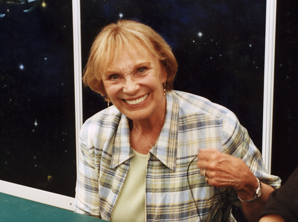 German actress Eva Pflug at the SF convention ExpoTrek in Hanover, Germany, 2000.